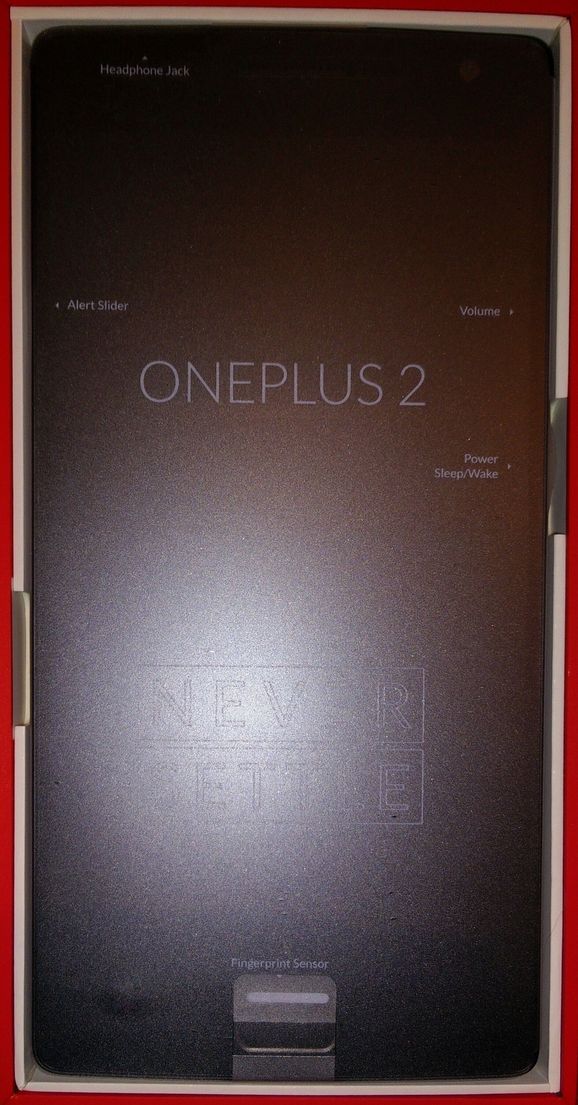 OnePlus 2 after unboxing